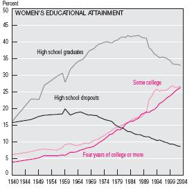 Women's Educational Attainment